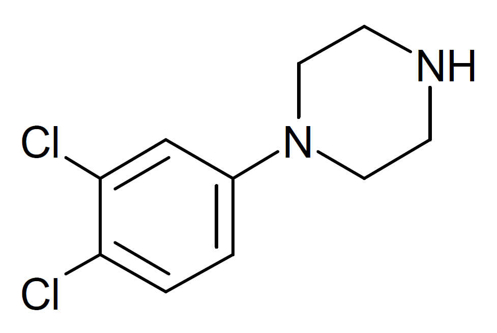 Structure of 3,4-dichlorophenylpiperazine